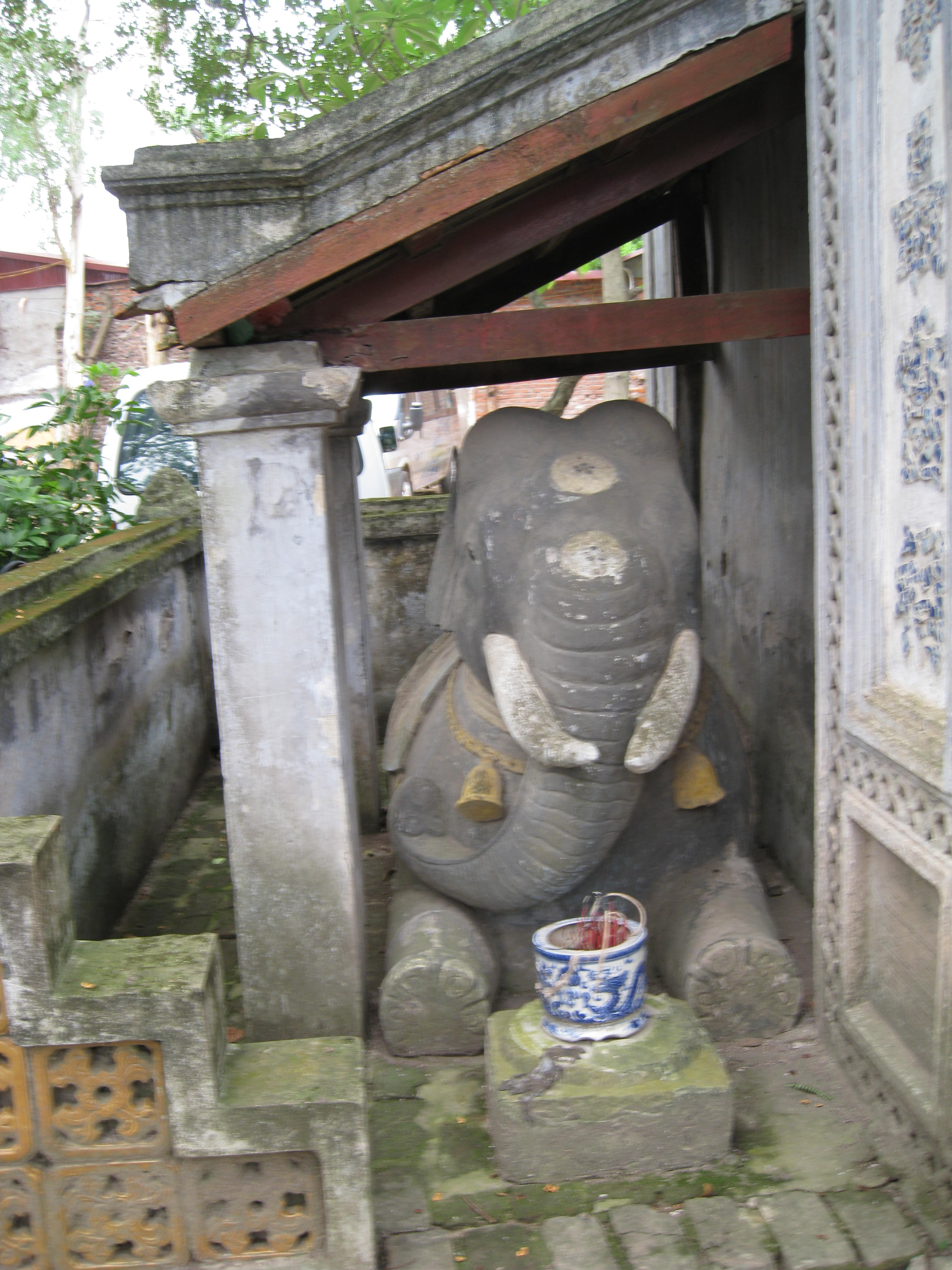 Statue of one of the two elephants kneeling next to the temple's gate.